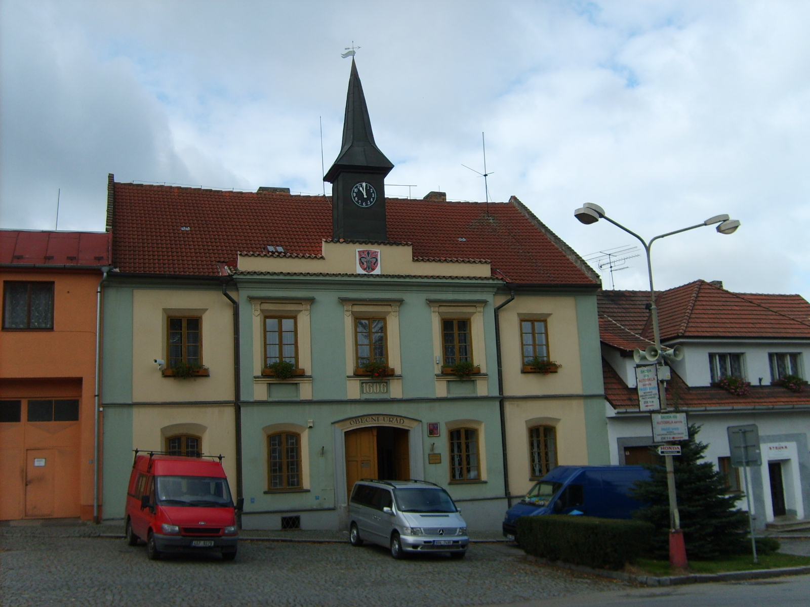 Townhall in Čechtice.